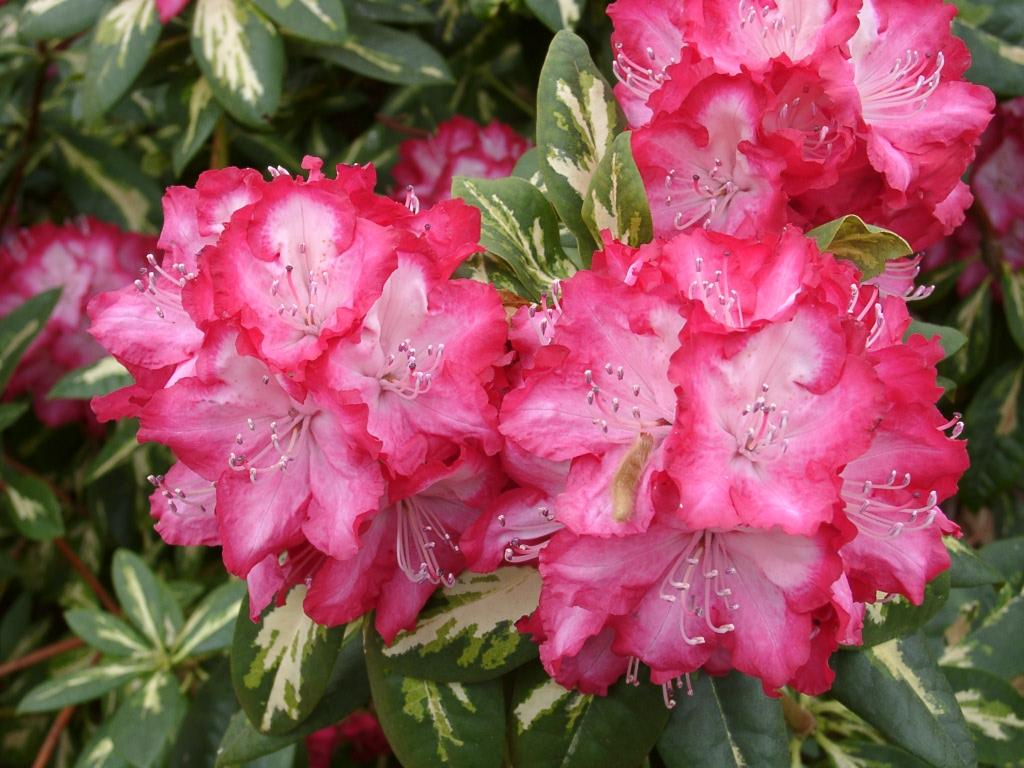 Photograph by User:Ramin Nakisa